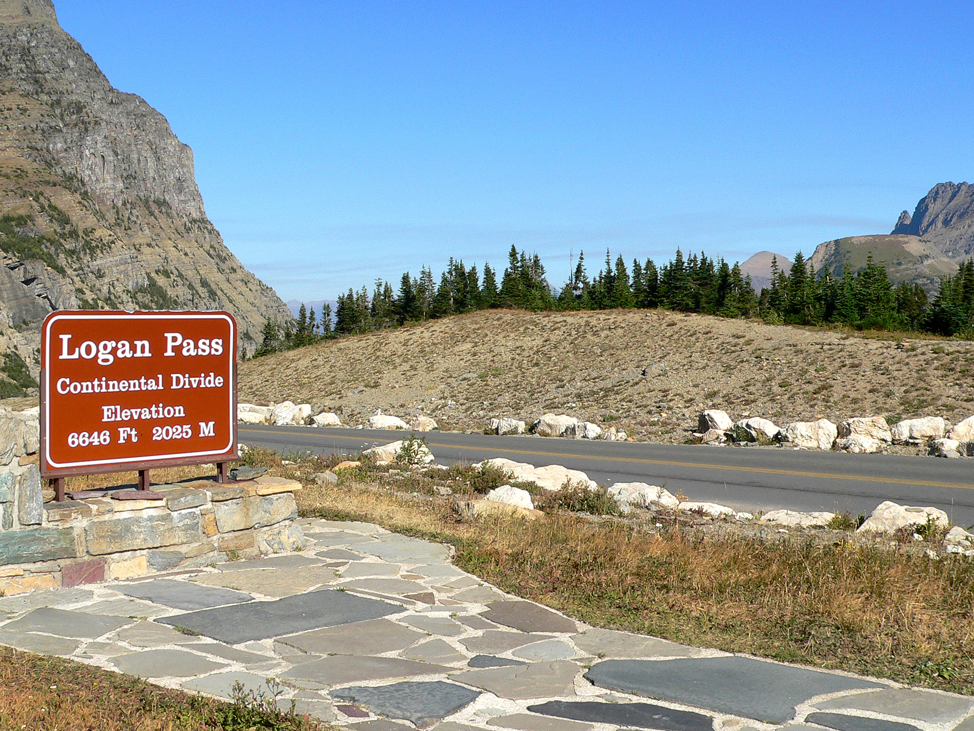 Sign outside the Logan Pass Visitor Center.Photo taken with a Panasonic Lumix DMC-FZ50 in Glacier National Park, Montana, USA.